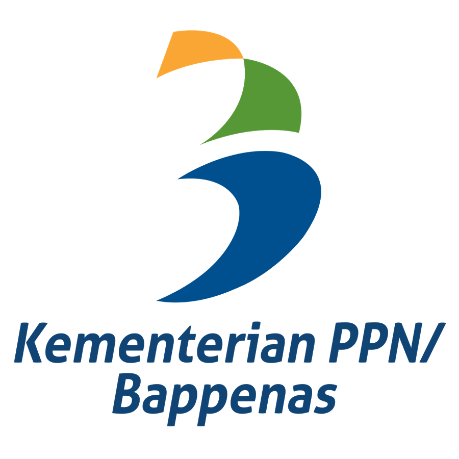 Logo of National Development Planning Agency in Indonesia